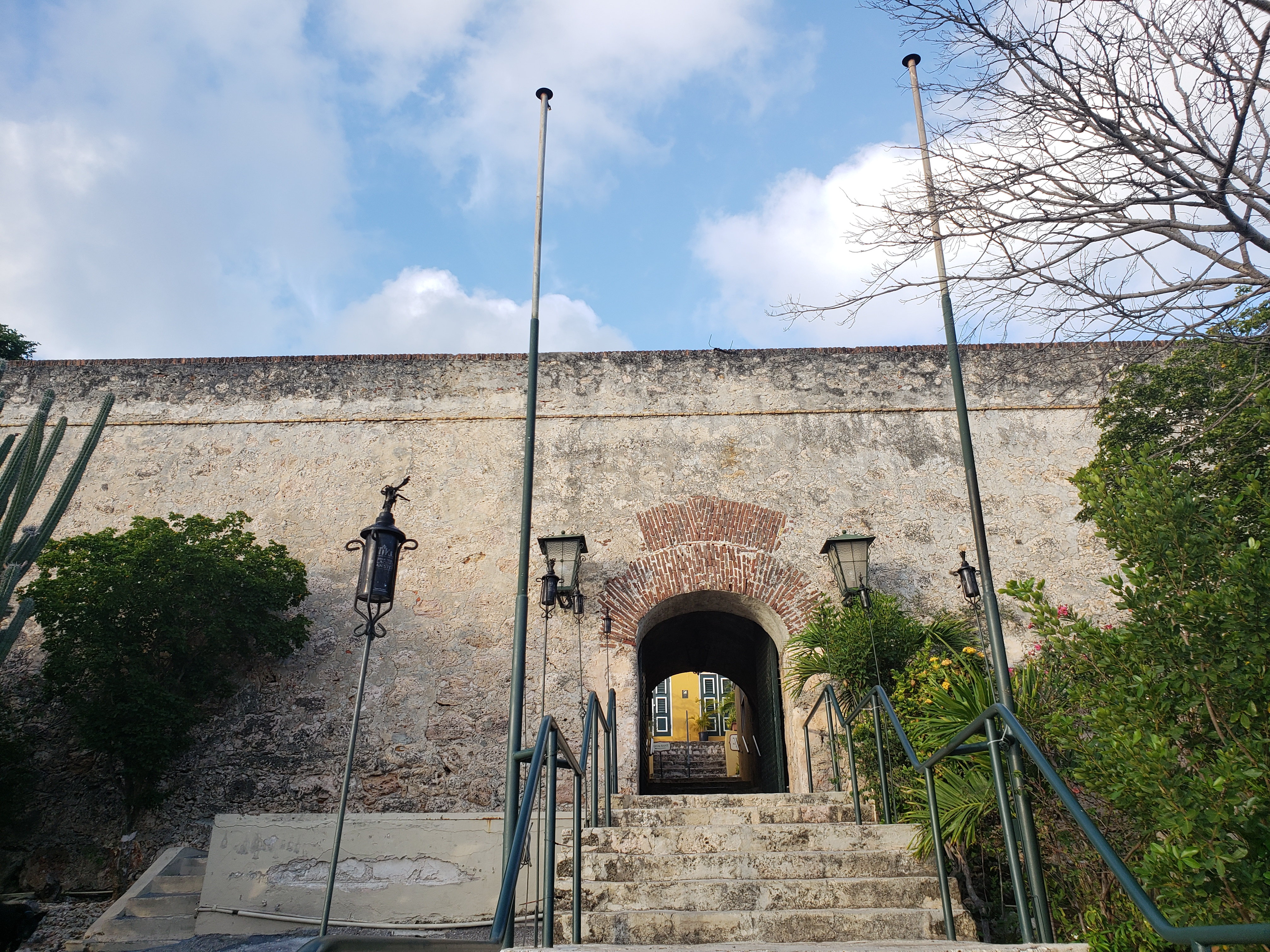 Fort Nassau, Curacao. Erected as Fort Republiek in the early 1800s, then called Fort George during the British occupation from 1807-16, then renamed Fort Oranje Nassau afterwards. Occupied by the US military in WWII, then abandoned after 1947, before becoming a restaurant in 1959. Source: historical marker at the entrance.